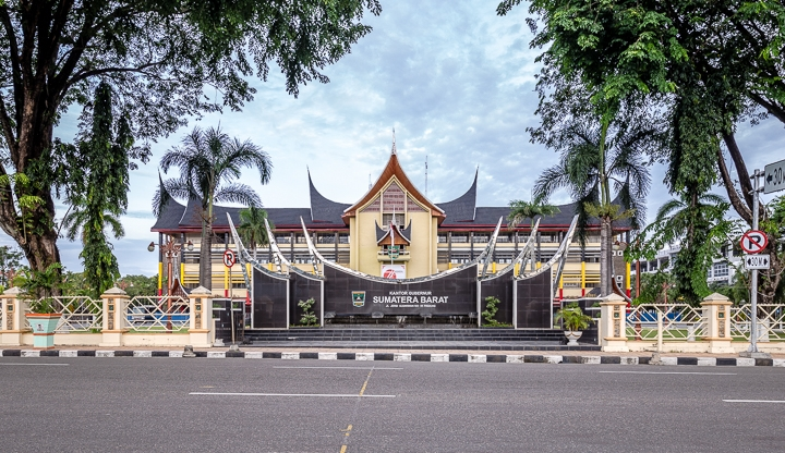 Kangub Sumbar, Indonesia, by Ikhvan